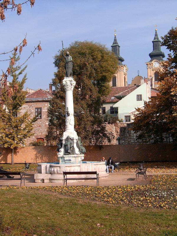 Püspökkút Memorial Column, Székesfehérvár